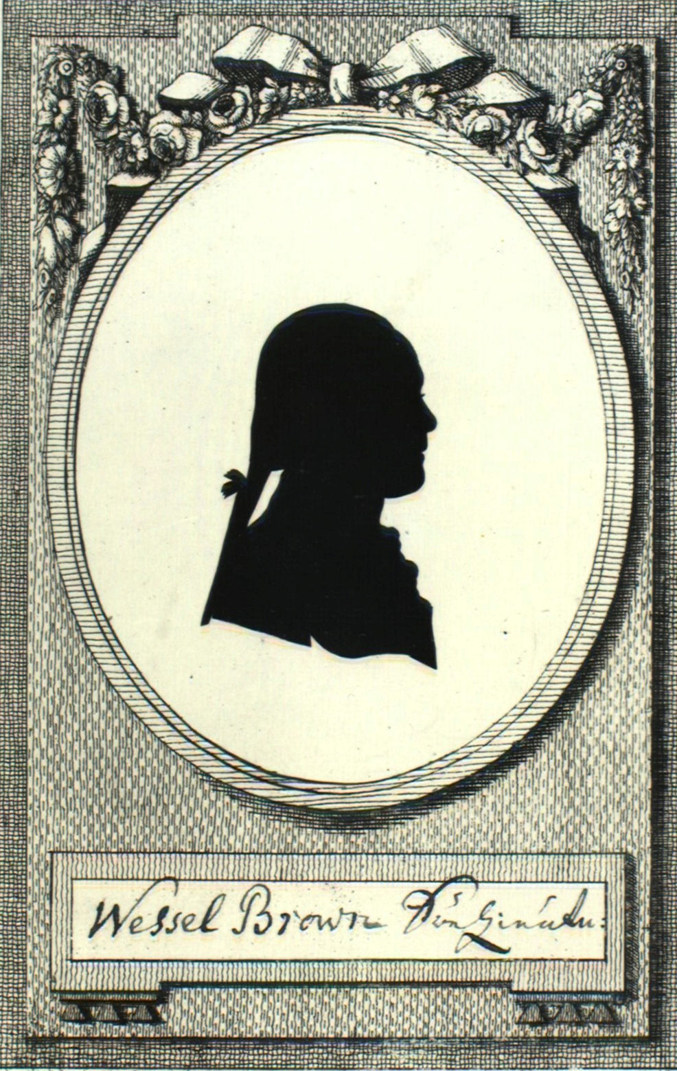 Peter Caspar Wessel-Brown